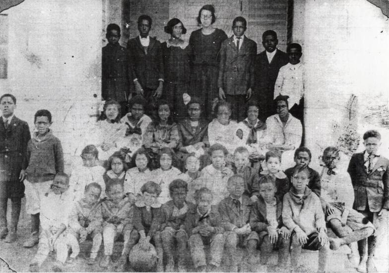 The Five Row school in Reynolda Village around 1920